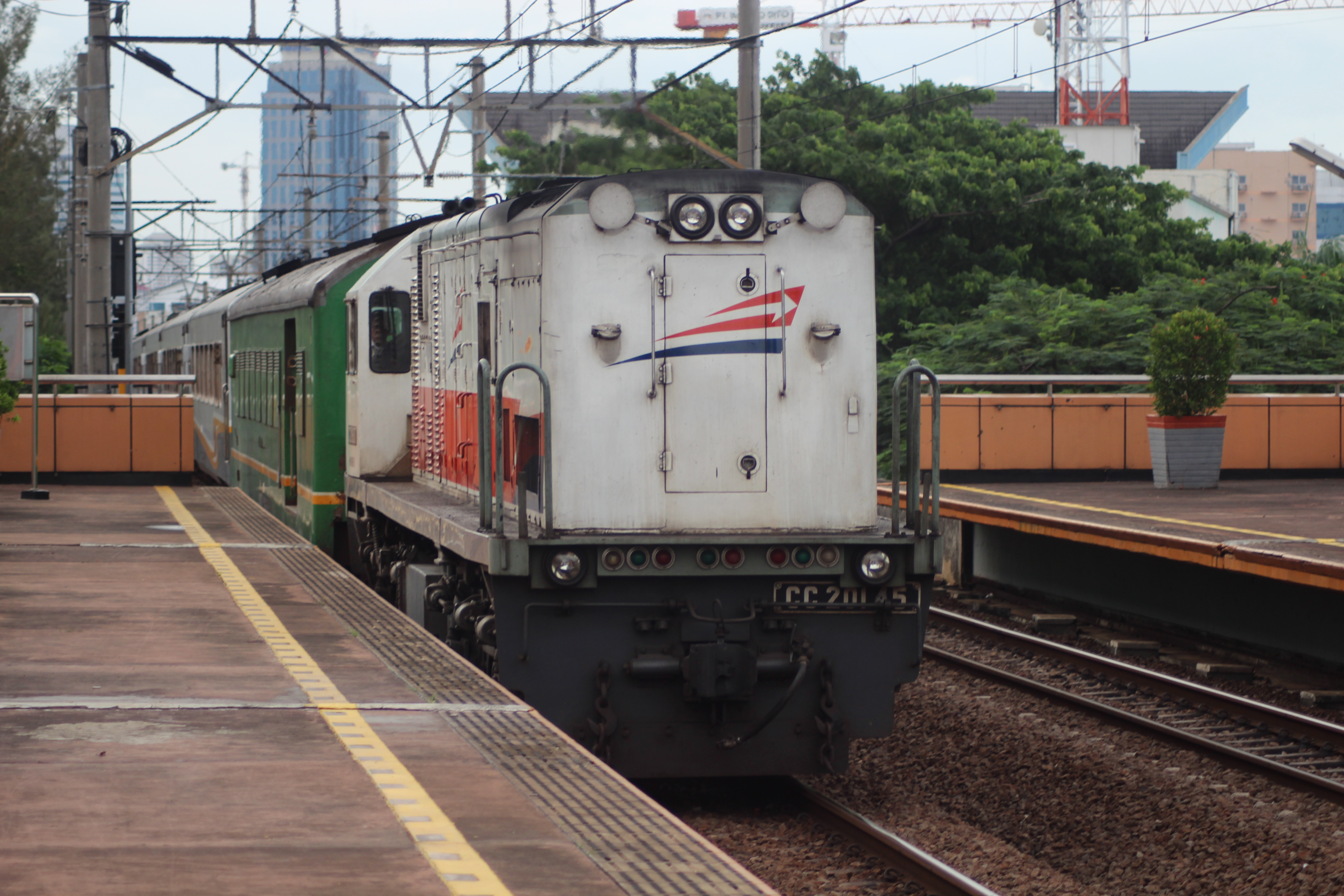 Argo Dwipangga Train Pulled By CC 201 45 Across Cikini Station